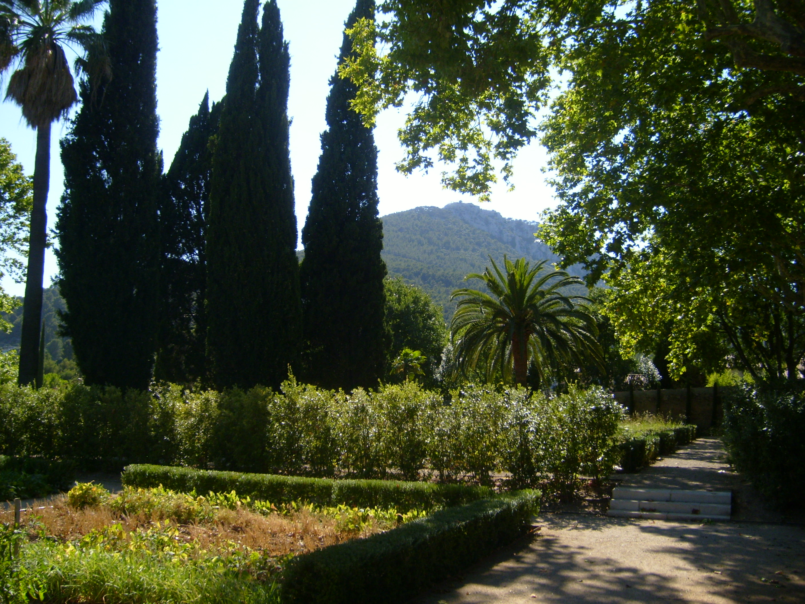 The Domaine du Baudouvin is a public park in La Valette-du-Var, in Provence-Alpes-Cote d'Azur, France